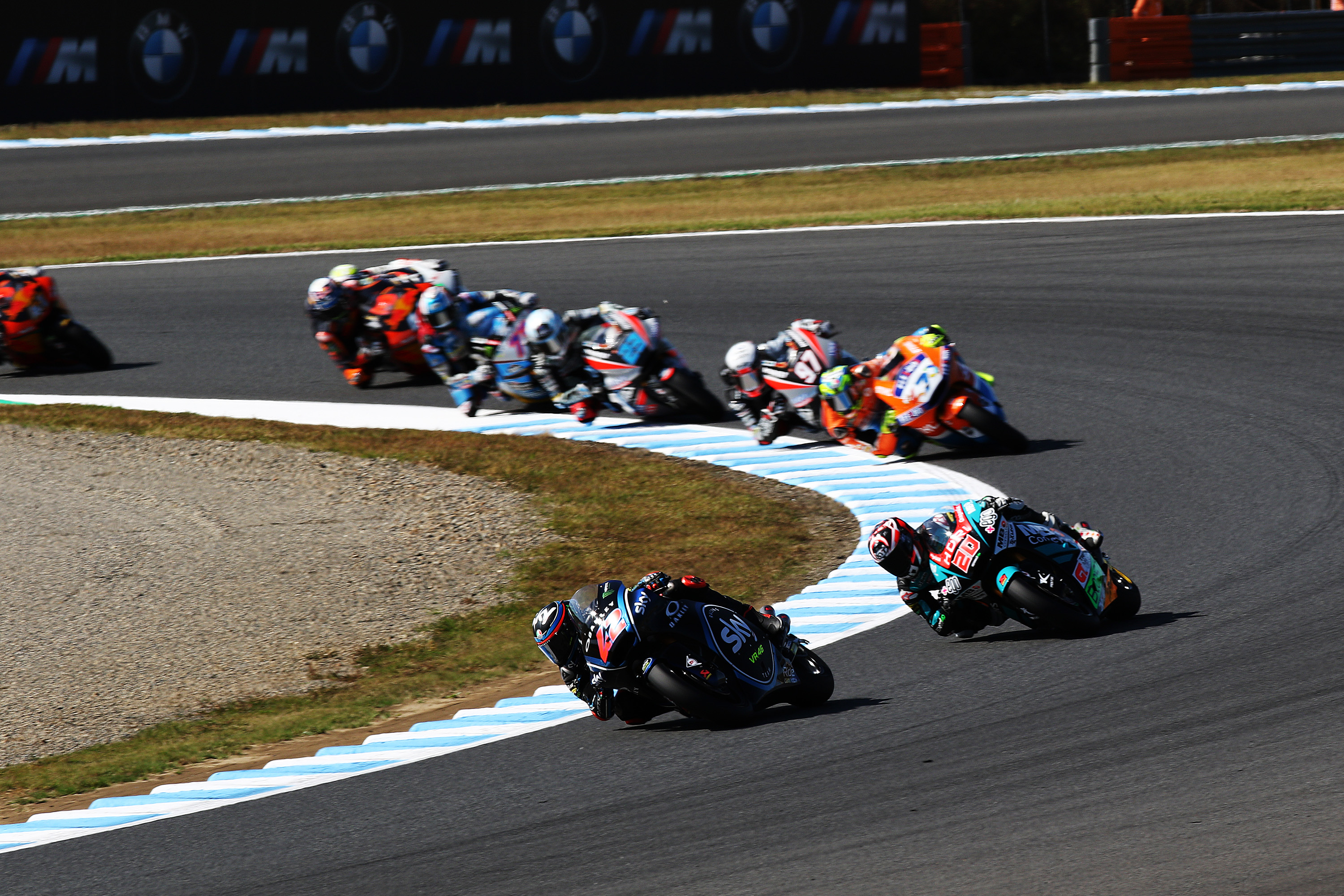 2018.10.21 MotoGP Rd.16 Motul Grand Prix of Japan Twin Ring MOTEGI Moto2 Class Final SKY Racing Team VR46 42 フランセスコ バグナイア KALEX